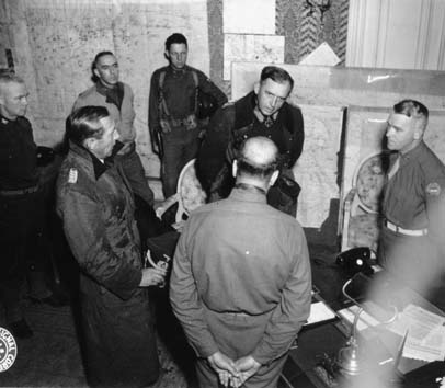 People in the circle; from left to right - Konteradmiral Walter Hennecke, Karl-Wilhelm von Schlieben, Joseph Lawton Collins, Unknown, while official surrender of Cherbourg.